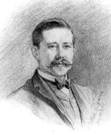 Portrait of Sir Henry (Harry) Hamilton Johnston 1858-1927